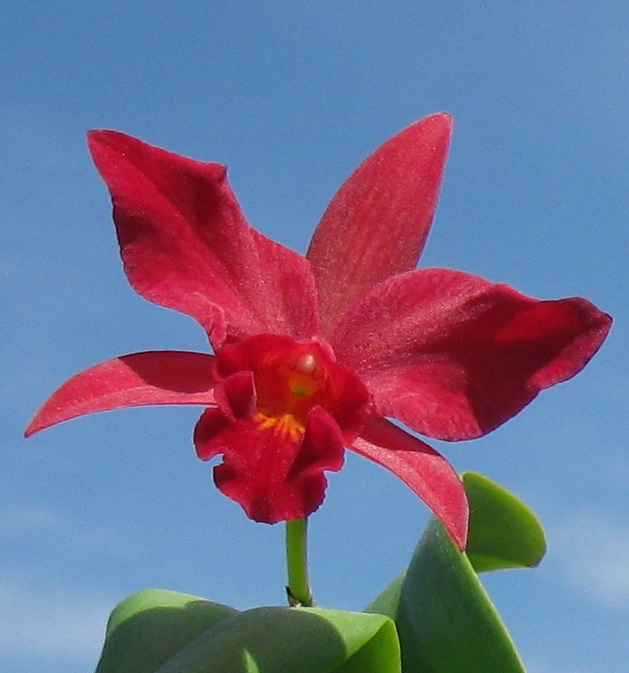 A single flower of Ctt. Jewel Box 'Scheherazade'